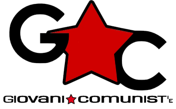 Logo of Italian Young Communists